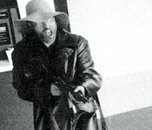 This image was found using GIS. Multiple websites attribute it as being an FBI photo.